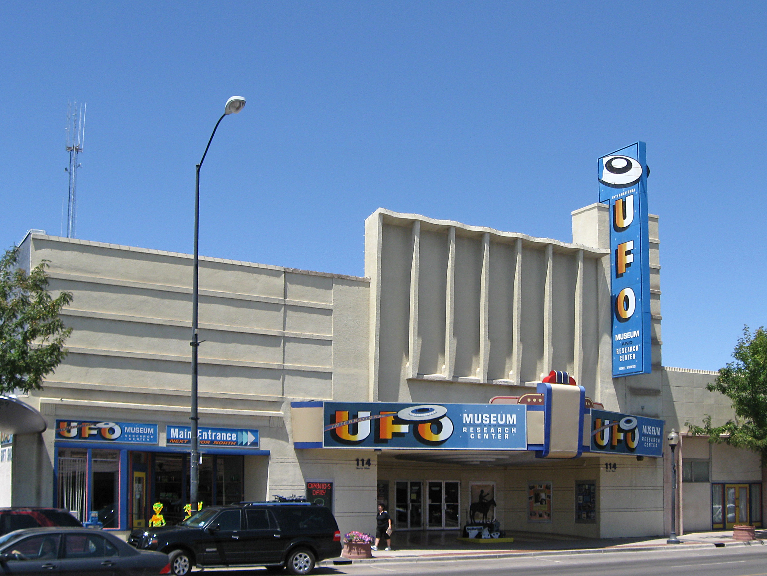 International UFO Museum and Research Center, located at 114 North Main in Roswell, New Mexico.